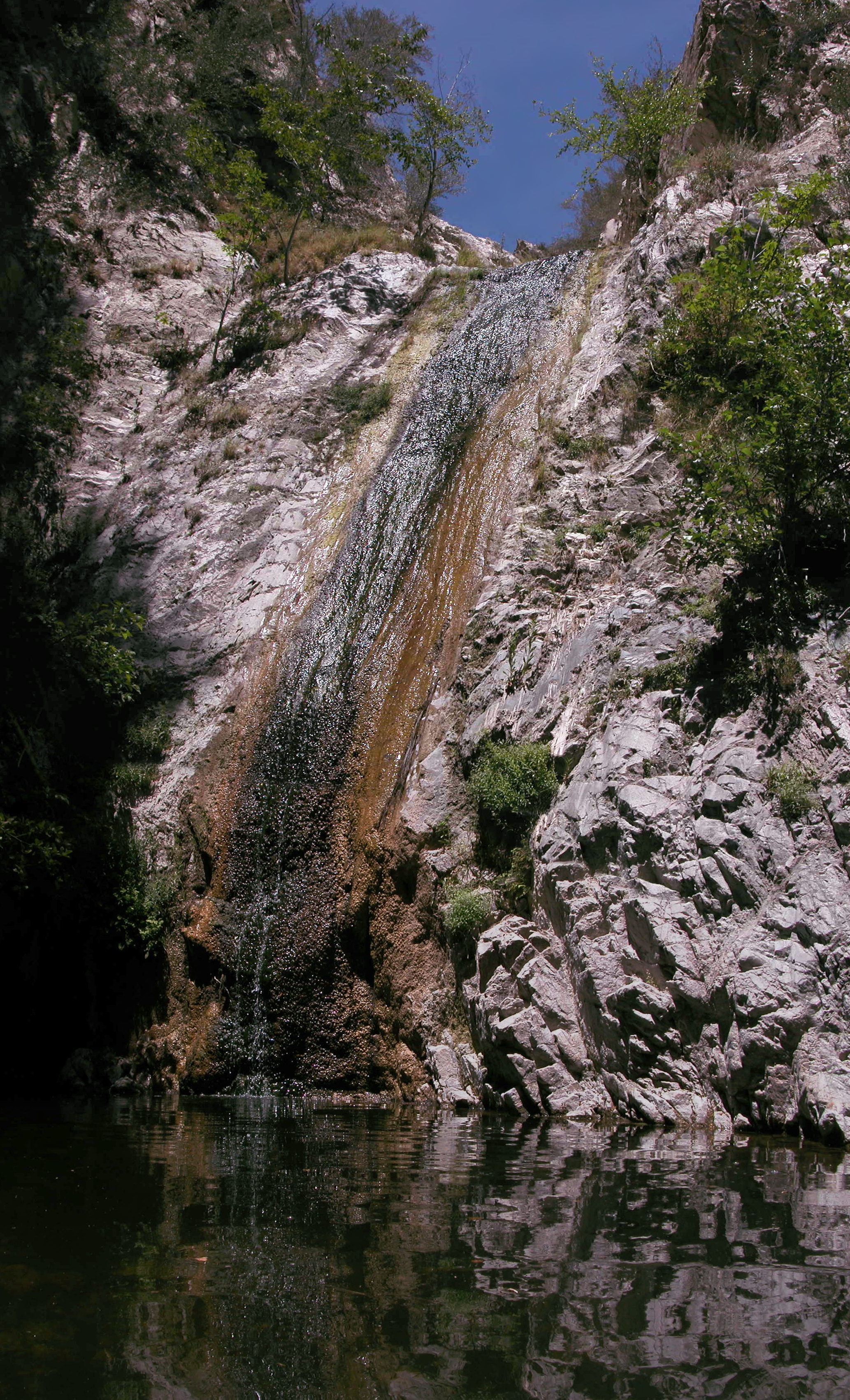 Switzer Falls at the headwaters of the Arroyo Seco (creek), in the San Gabriel Mountains, Southern California Switzer Falls is accessible after a hike in the Angeles National Forest. If you go, don't forget to get a parking permit (aka "Adventure Pass") beforehand.